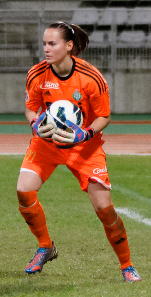 PSG-AS Saint-Étienne, december 16th, 2012. Méline Gérard (ASSE).